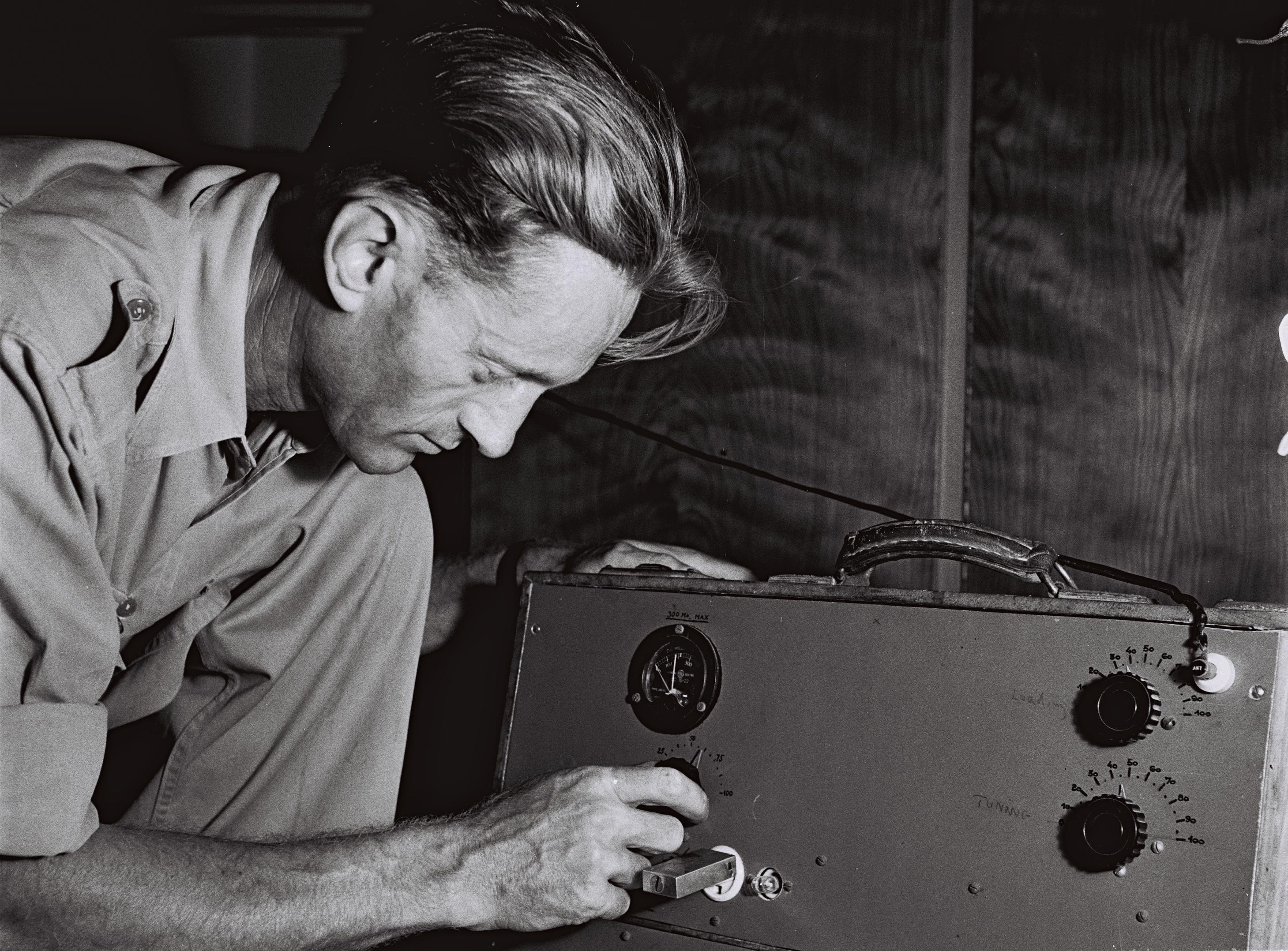 Hagana member Ze'ev tuning the secret radio transmitter before the broadcast. חבר ההגנה זאב מדליק את משדר הרדיו הסודי בטרם תחילת השידורים Photo: Zoltan Kluger (1896–1977) Alternative names Qlwger, Zwlṭan; Zolṭan Ḳluger; Kluger, Z.; W. von Szigethy; W. Von SzighethyDescriptionHungarian-Israeli photographerDate of birth/death 8 February 1896 16 May 1977Location of birth/death Kecskemét ManhattanAuthority control : Q7035699 VIAF: 19504001 ISNI: 0000 0000 6686 1613 ULAN: 500483392 LCCN: no2008144265 Open Library: OL6614008A WorldCat creator QS:P170,Q7035699 , 04/10/1948